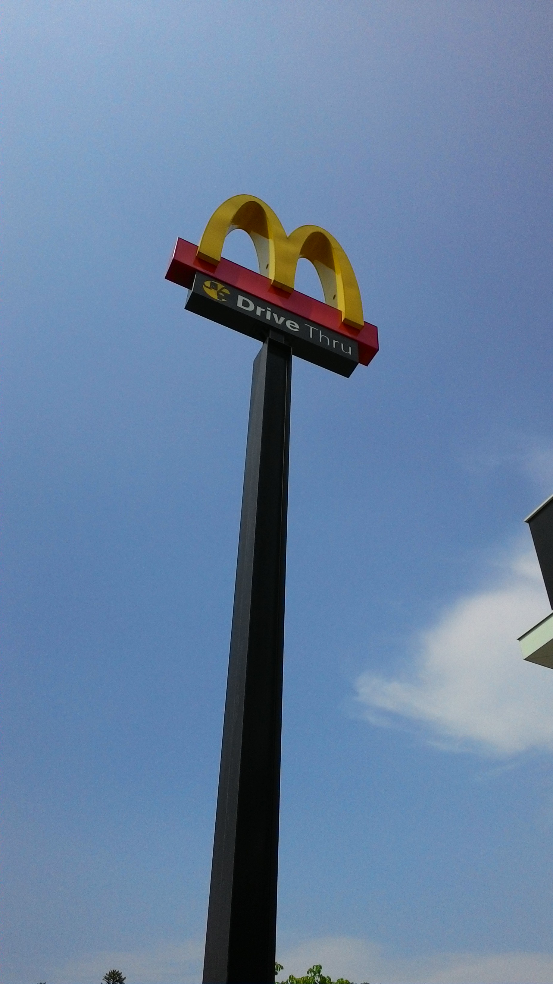 A McDonald's logo in Taiwan